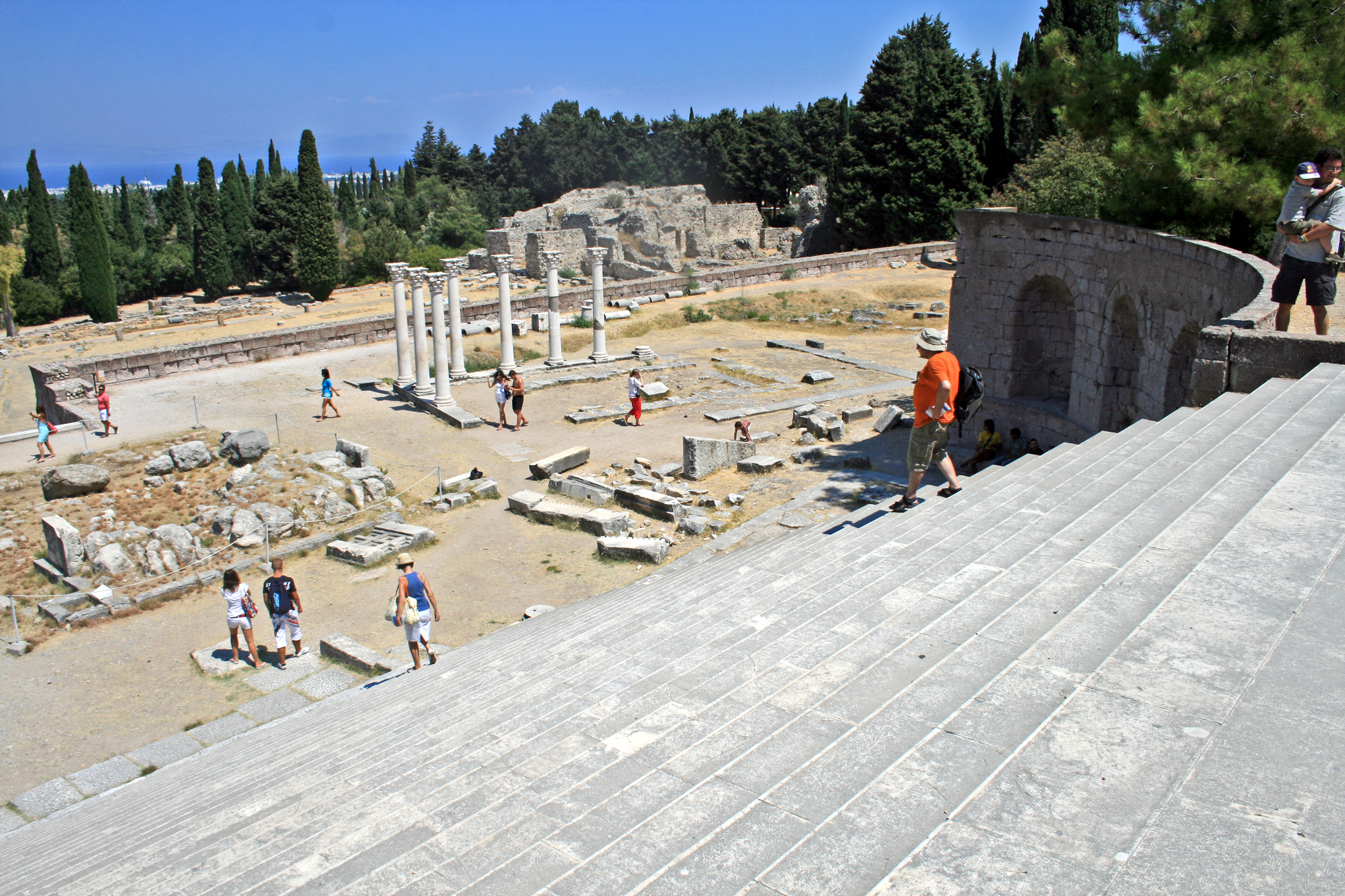 Asclepeion of Kos (Greece), Medicine School of Hippokratés. Looking down on to the second terrace, the "Altar of Asclepius" is as the bottom of the steps, with the "Temple of Apollo" to the right.